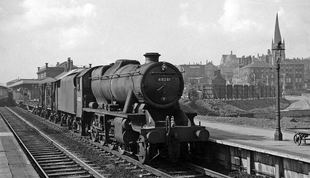 Chesterfield (Midland) Station, with a Down freight train. View southward, towards Derby etc., Nottingham, Leicester and London etc.; ex-Midland Main Lines London St Pancras, Leicester, also Bristol, Bimingham and Derby, to Sheffield, Leeds etc. Freight traffic through here was extremely heavy and this Class H freight was put through the station on the Down Fast, headed by Stanier 8F 2-8-0 No. 48281. Note the 'Crooked Spire' on the right.